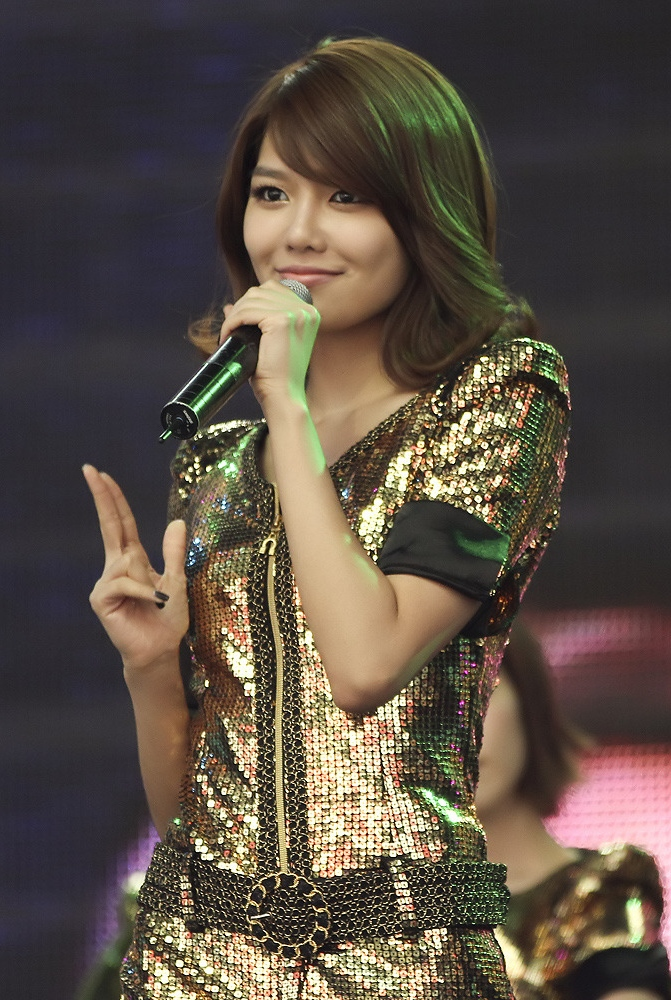 Sooyoung at Angel Price Music Festival on April 17, 2011.